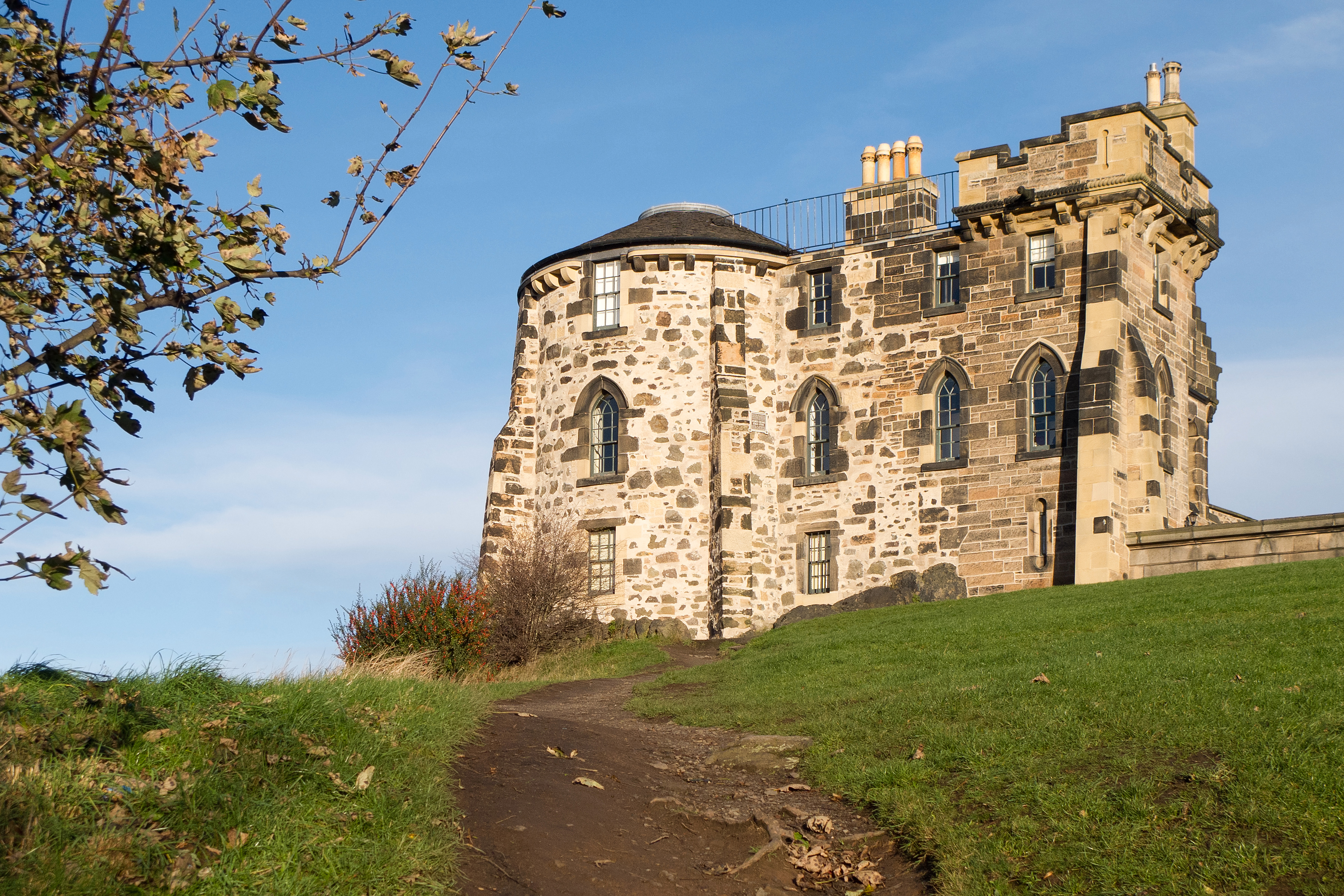 Gothic Tower of the City Observatory of Edinburgh, Scotland, UK. It is the oldest part of the observatory and was designed by architect James Craig and built in the 18th century. It was the only gothic tower built of all that were planned because the project ran out of money. Wikidata has entry Q17570774 with data related to this building.